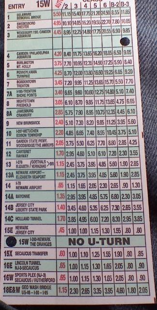 A toll ticket taken from Exit 15W upon entry to the New Jersey Turnpike.